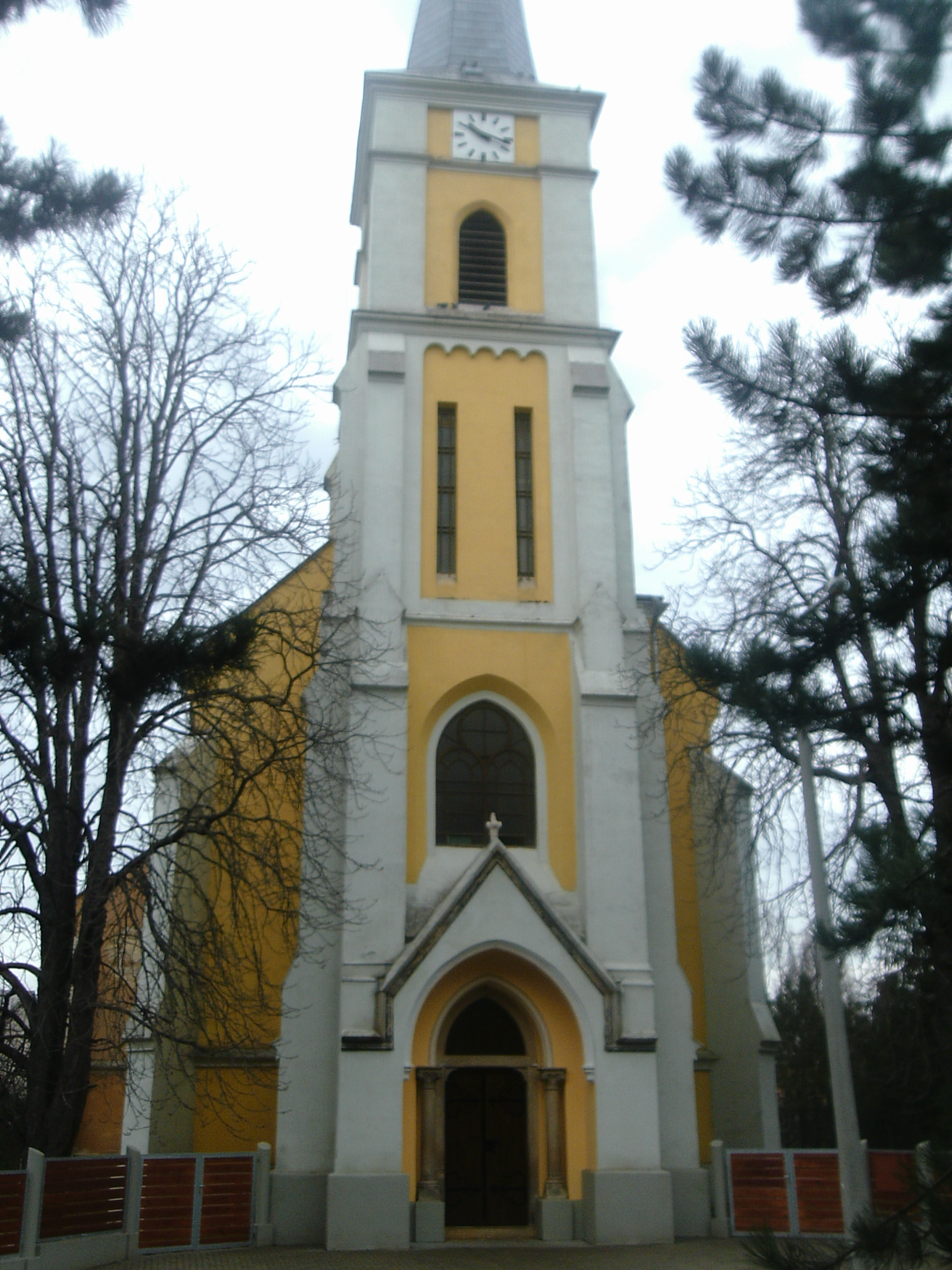 Szent László király templom